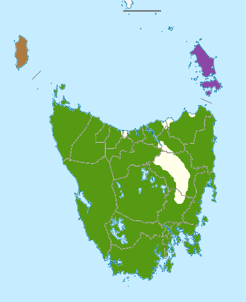 Distribution map of Black Currawong (Strepera fuliginosa), derived from Higgins, Peter Jeffrey; Peter, John M.; Cowling, S.J. (eds.) (2006) Handbook of Australian, New Zealand and Antarctic Birds. Vol. 7: Boatbill to Starlings, Melbourne: Oxford University Press, p. 558 ISBN: 978-0195539967. . subspecies = fuliginosa, = colei (King Island), = parvior (Flinders Island)